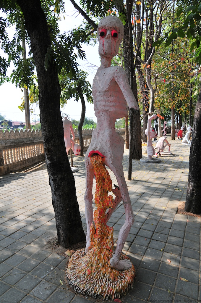 Sculture in Isan, Thailand.